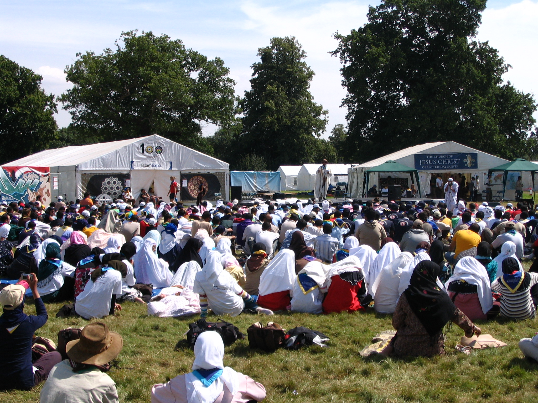 Muslim Friday prayer in 2007 World Scout Jamboree's "Faiths & Beliefs" area.